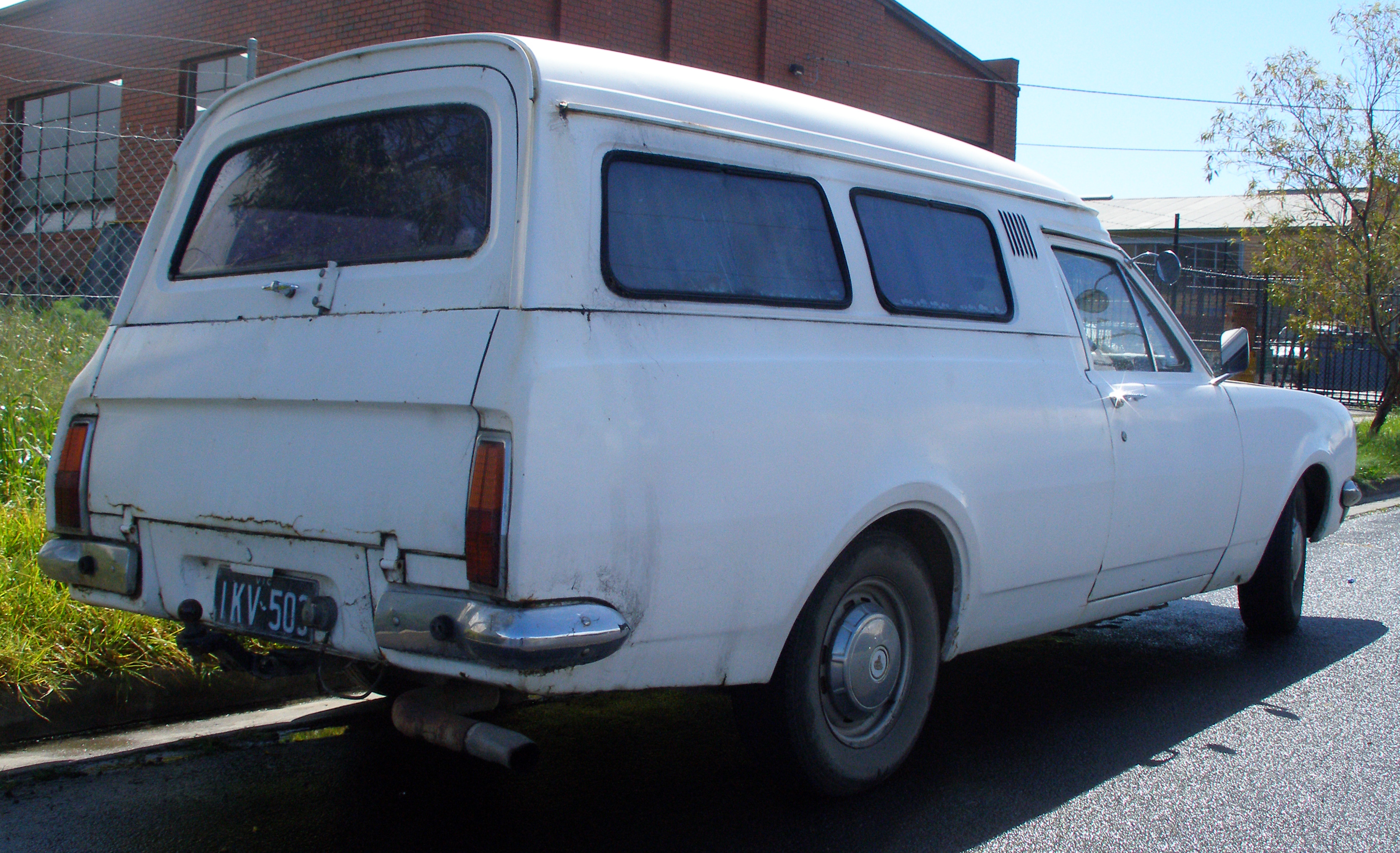 1969–1970 Holden HT Belmont panel van, photographed in Victoria, Australia.